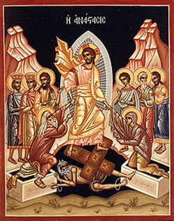 Resurrection of Jesus (ortodox icon)